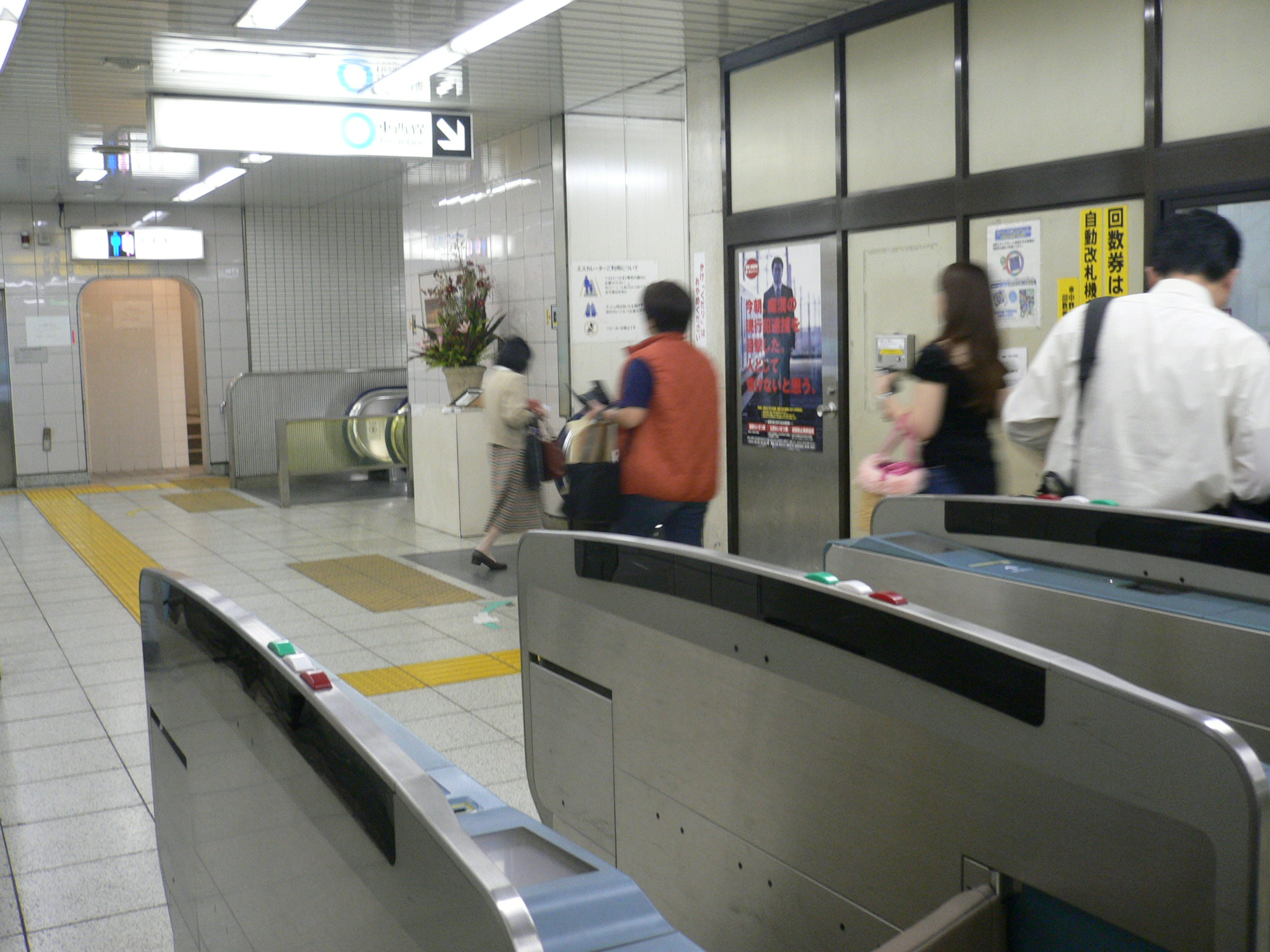 Kiba Station (木場駅), Kotō W, Tokyō M.